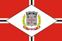 Flag of the city of Vera Cruz, Rio Grande do Sul, Brazil.